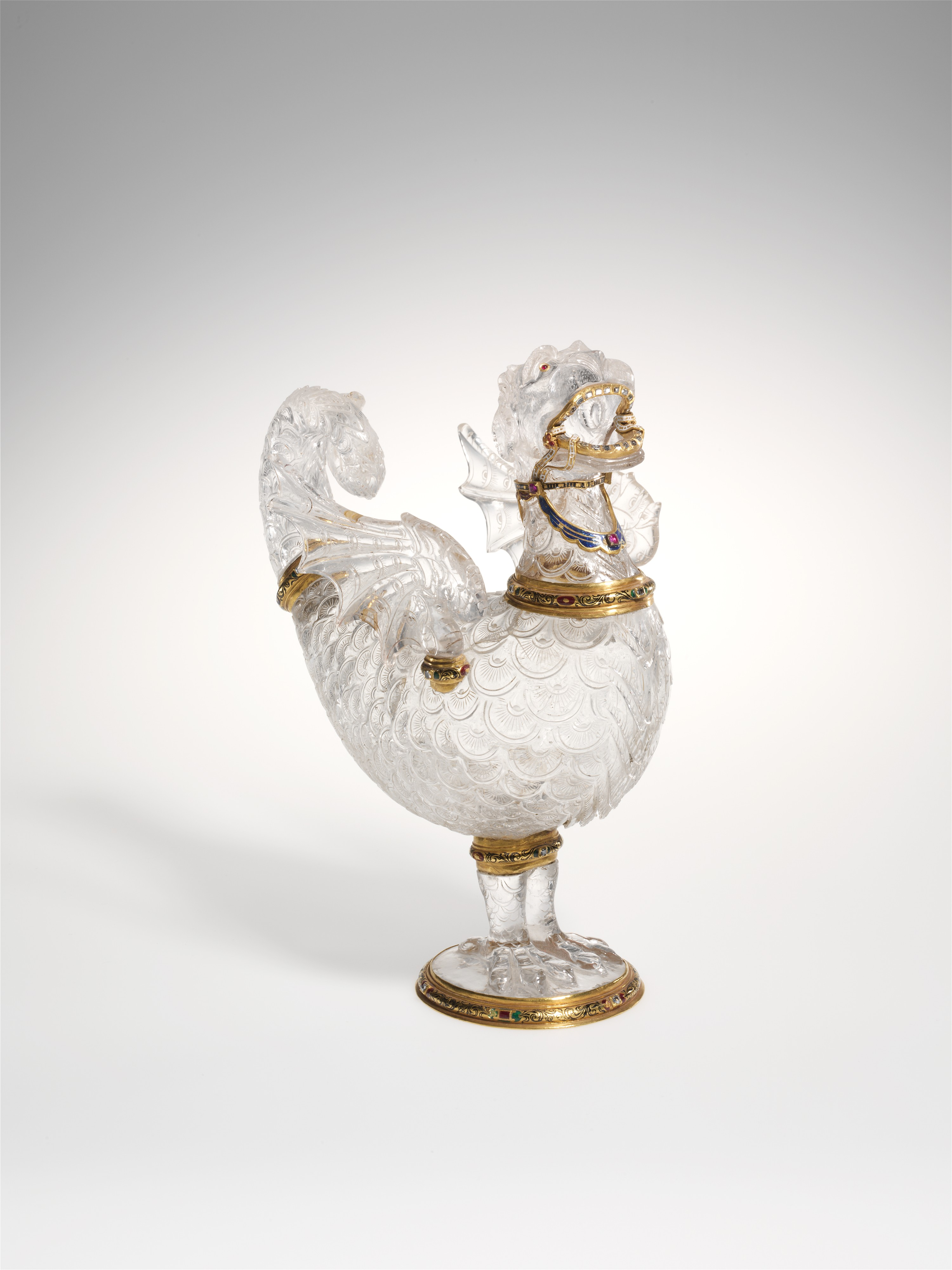 Italian, Milan; Table ornament; Natural Substances-Rock Crystal